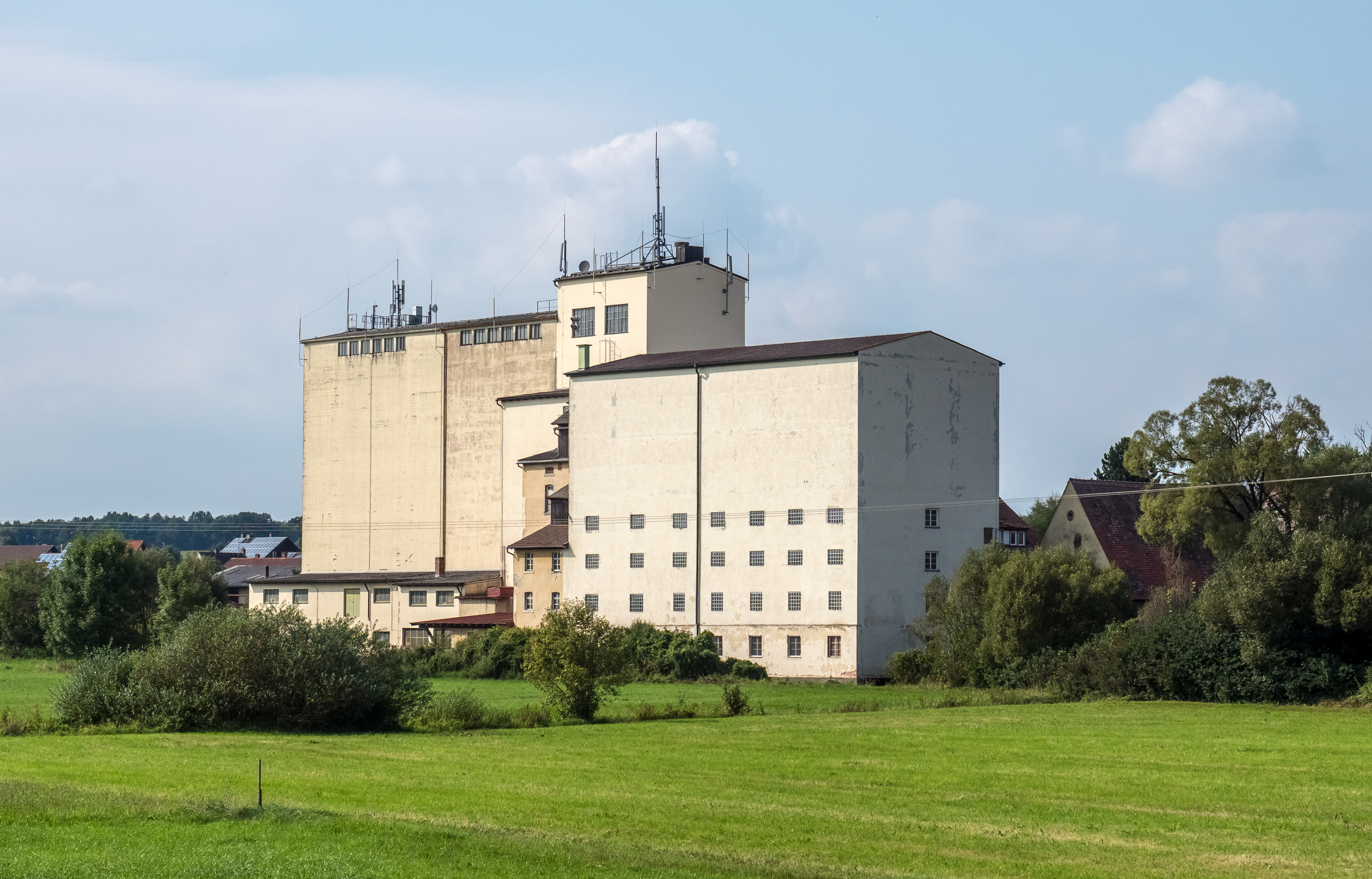 Mill in Reundorf